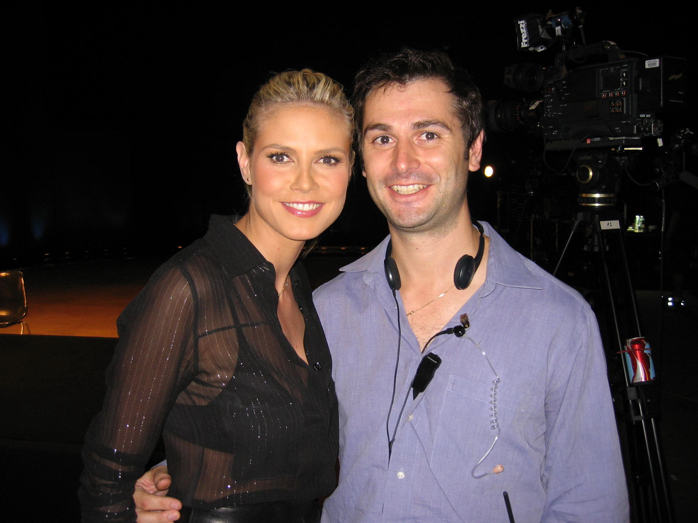 Presenter Heidi Klum and Producer Sebastian Doggart on set of Project Runway